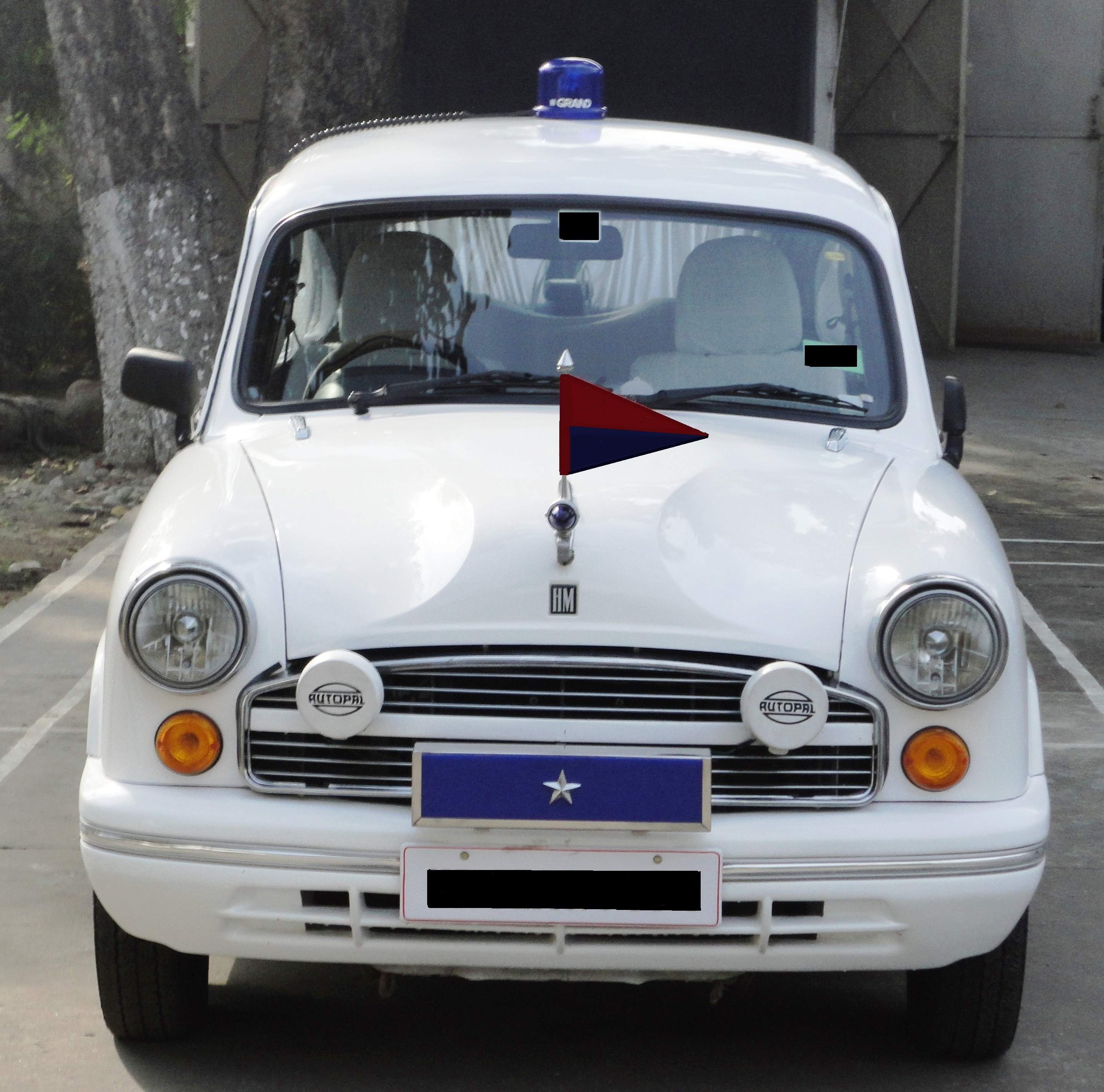 This is the official car of a DIG (Deputy Inspector General) of Police in India. It has a triangular flag as well as one star (on the blue box). Both these features indicate that the car belongs to a DIG rank police officer. Note 1- A similar blue box having a star is present on the back-side of the car. Note 2- I have blackened the number plate as well as the security passes stuck on the front screen. I have also coloured up the flag. All this has been done for security and privacy reasons. Note 3- The colour of beacon (on the top of car) as well as the colour & logo of flag vary for the police forces of different states of India. Note 4- While this photo features an Ambassador car, now the police forces buy SUV's and Sedans for senior police officers.